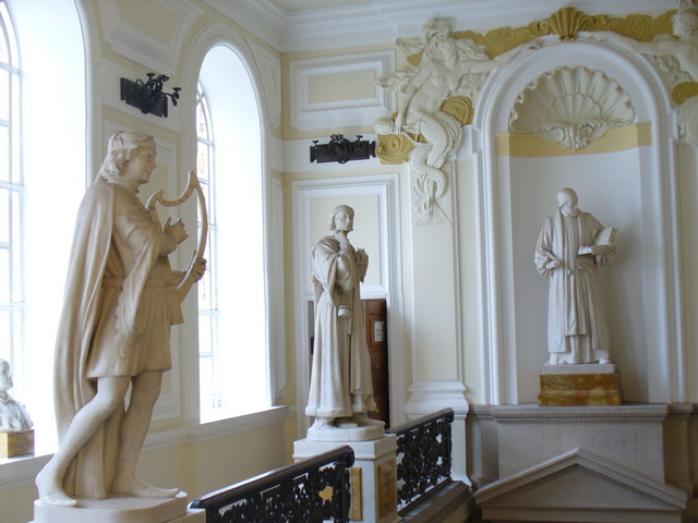 Inside Cardiff City Hall Some of the marble statues in the "Heroes of Wales" sequence - including David ap Gwilym with the harp and Gerald the Welshman with the book.